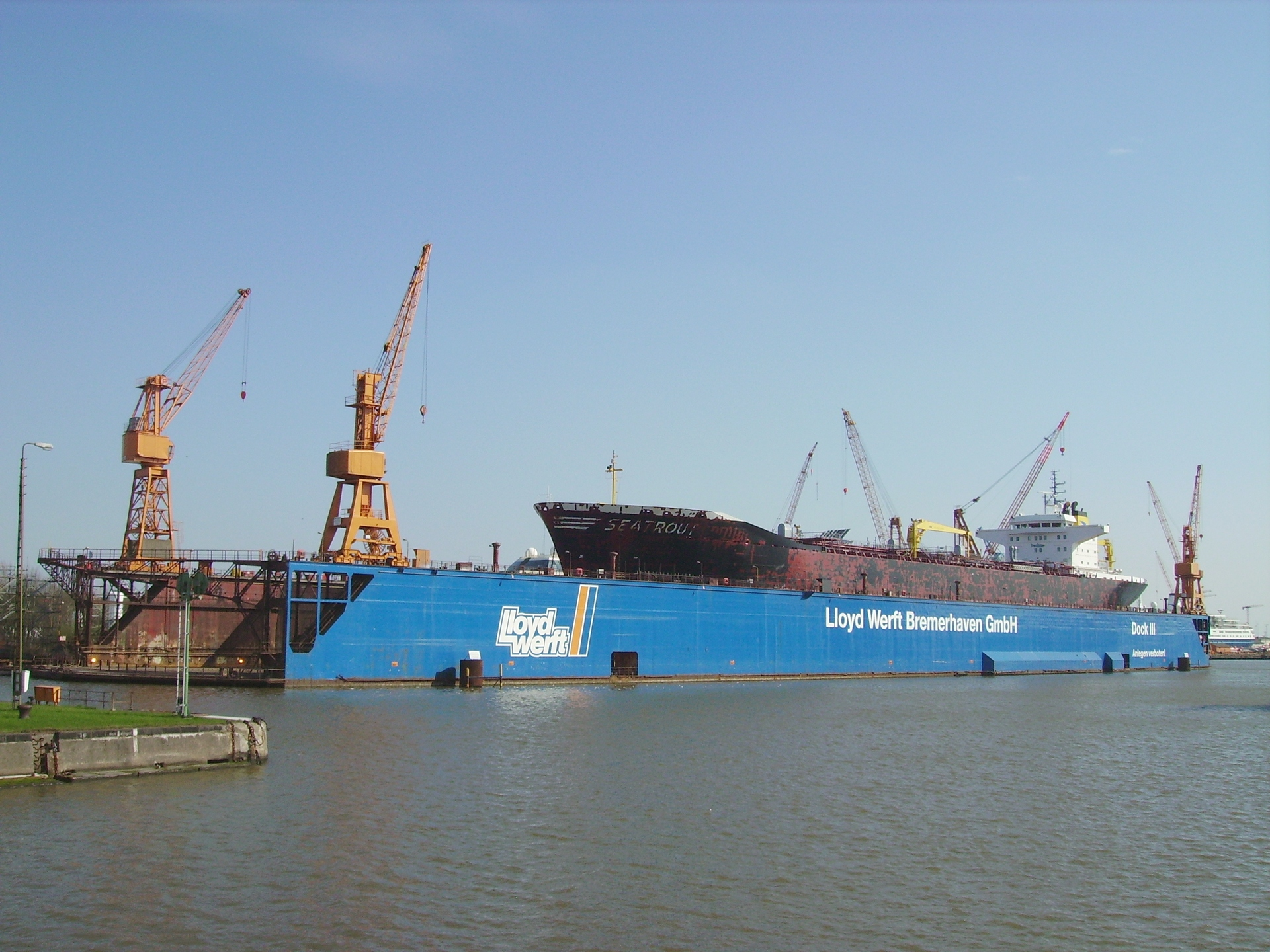 The floating dock of the Lloyd shipyard in Bremerhaven, Germany. Inside the dock we see the tank ship "Seatrout"